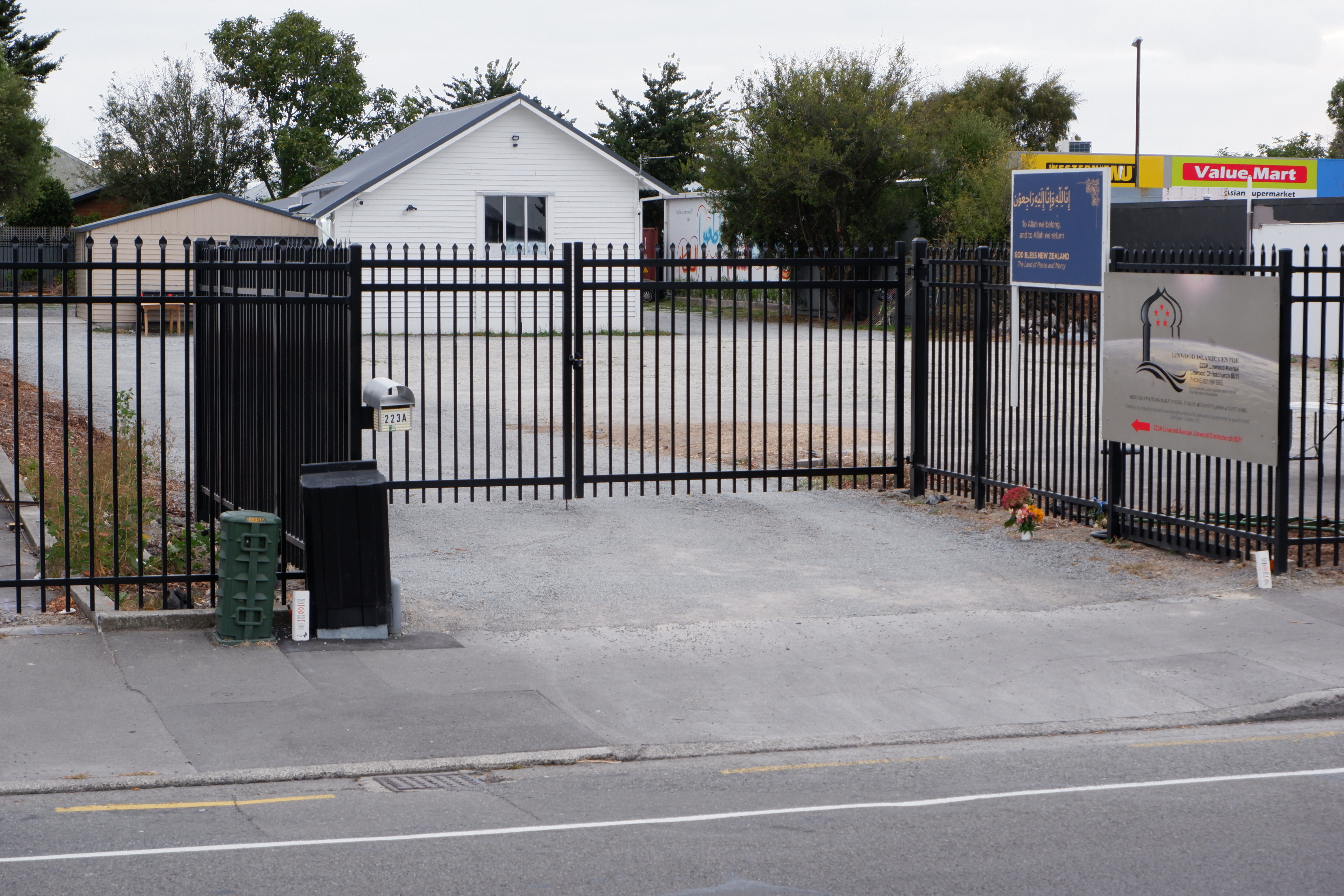 The Linwood Islamic Centre, Christchurch, NZ. Photo taken in March 2020. at the time of the shootings in March 2019, a building at the front hid the mosque from view from the street. access was along a drive to the left.